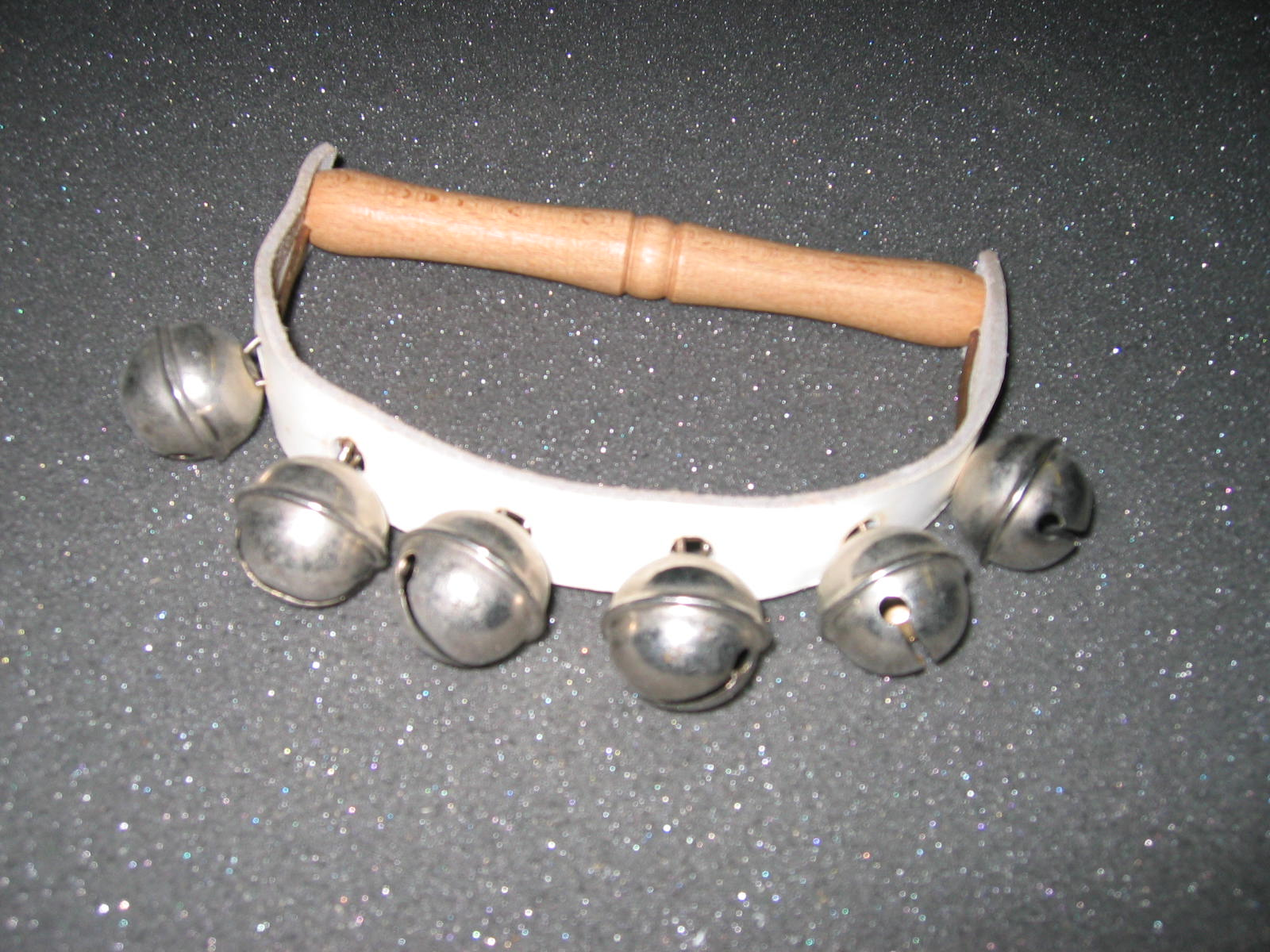 Jingle bells